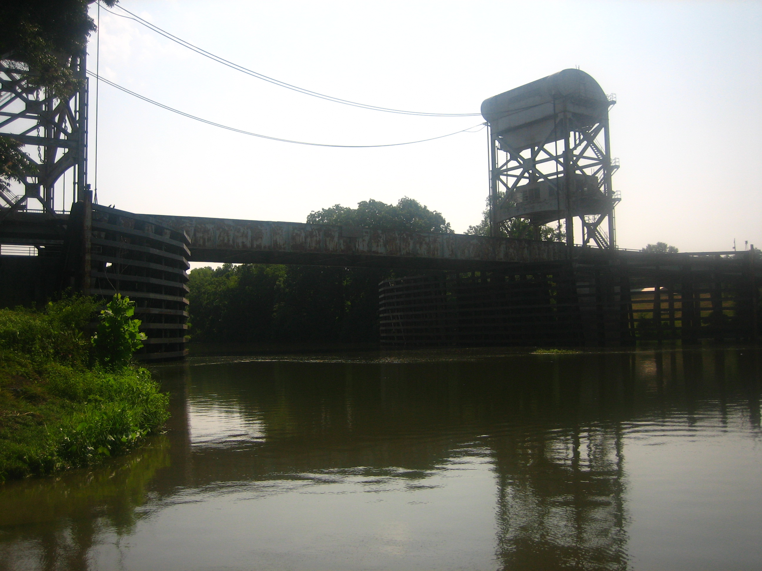 I took photo on Aug. 2, 2008.Billy Hathorn (talk) 14:52, 16 August 2008 (UTC)